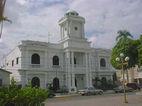 El Ayuntamiento San Francisco de Macoris